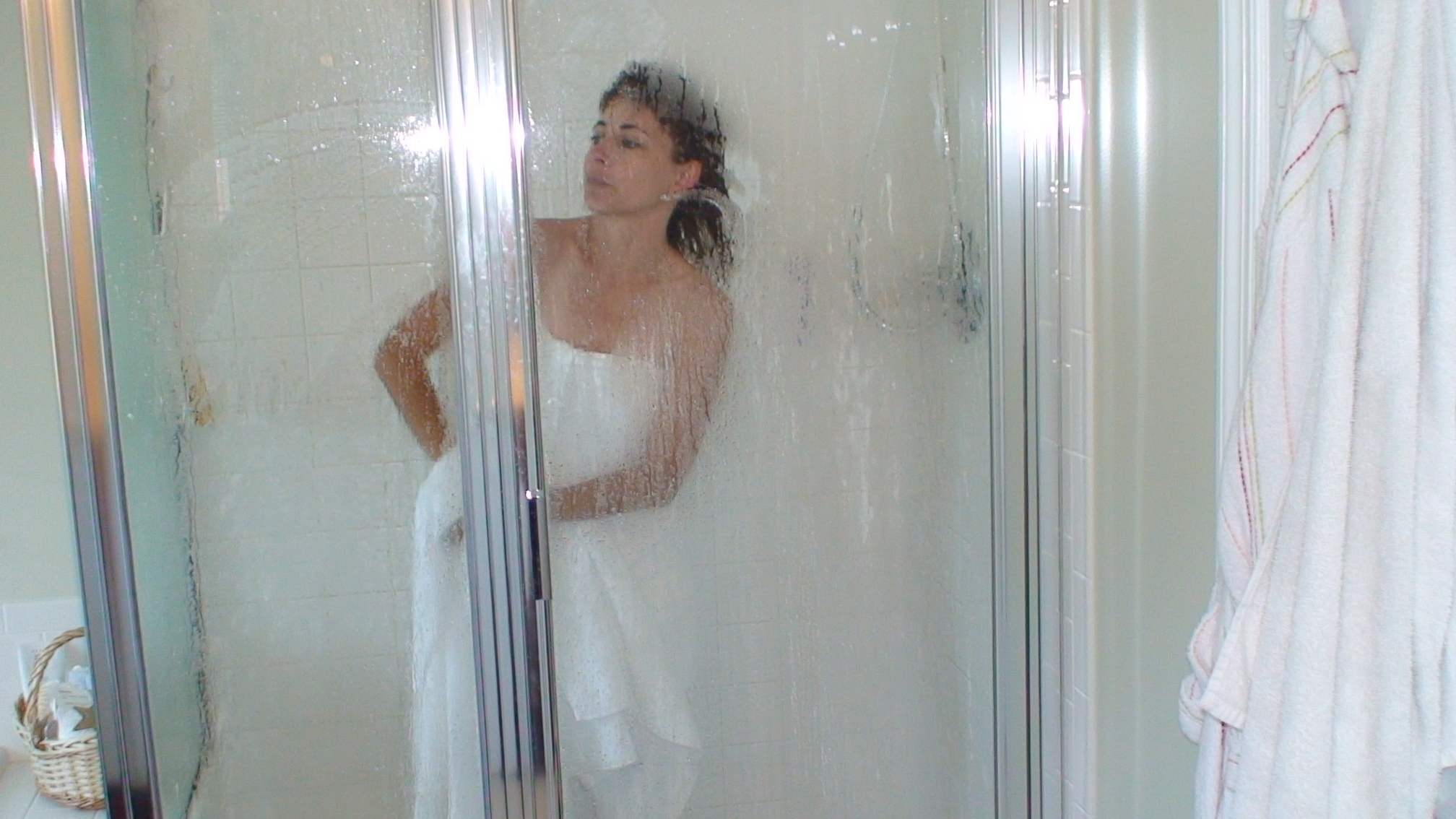 woman with a towel in a shower